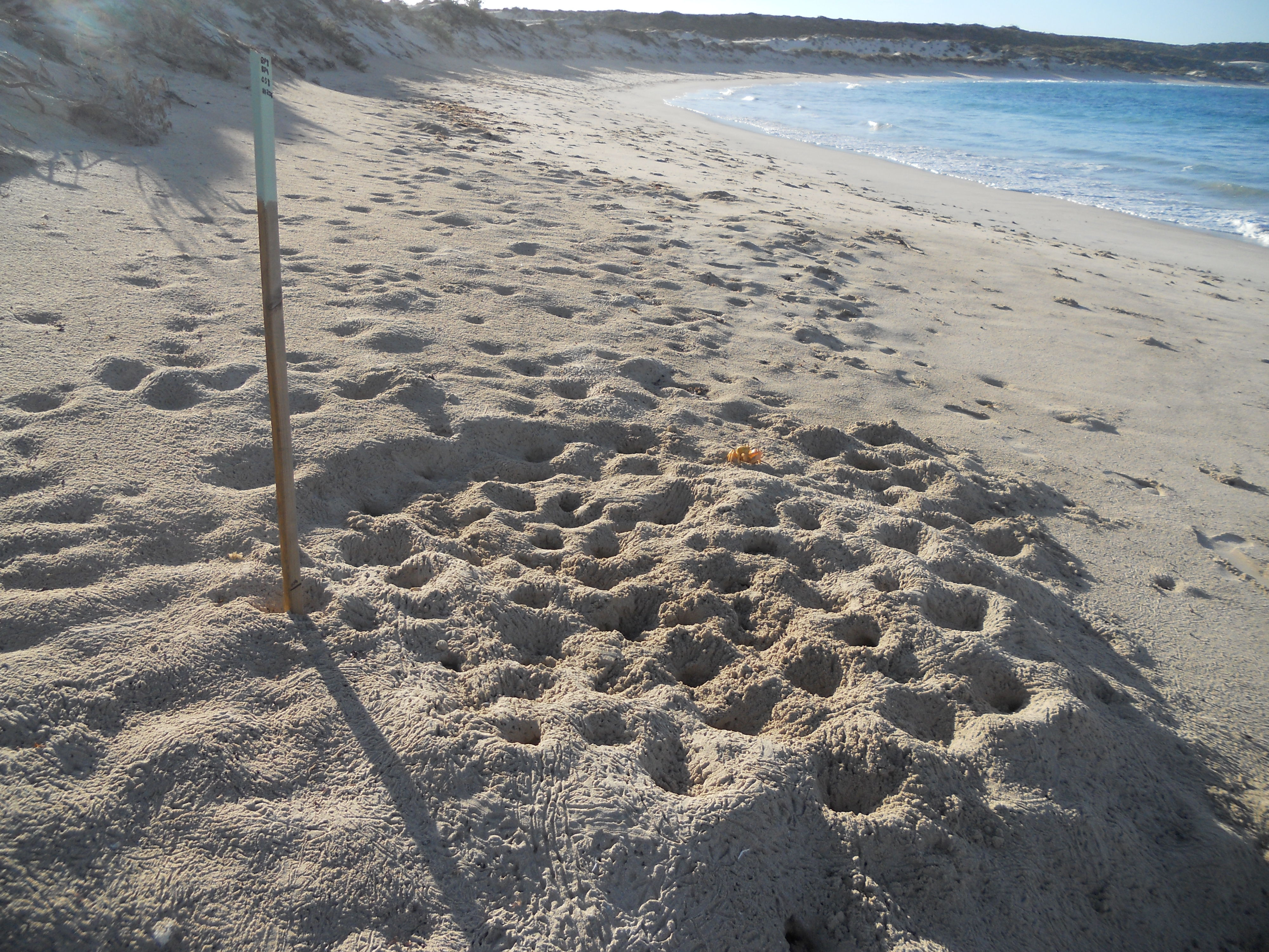 Ghost crab (Ocypode convexa) predation on Caretta caretta, Gnaraloo Bay Rookery